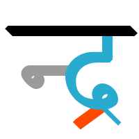 devanagari ndra consonants combination